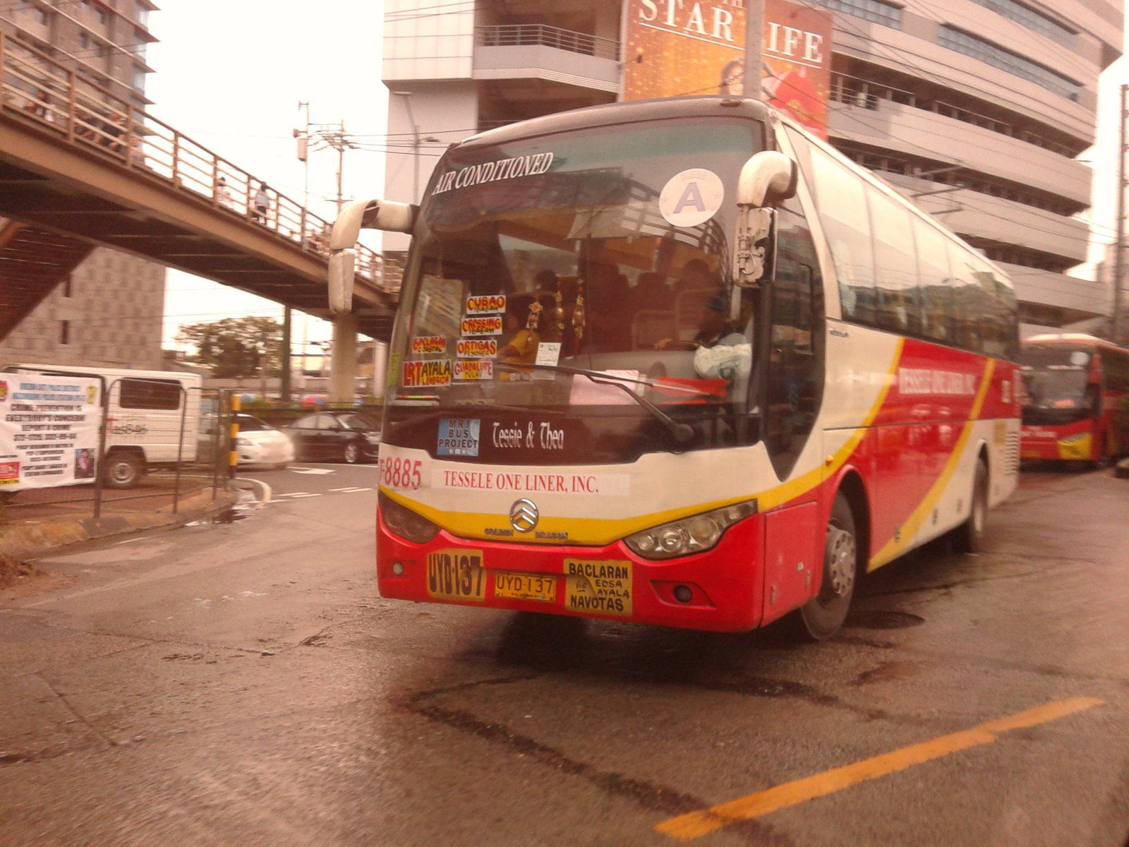 This is HM Transport Inc.'s City Operation subsidiary. It was formerly called Delta Transport Inc.